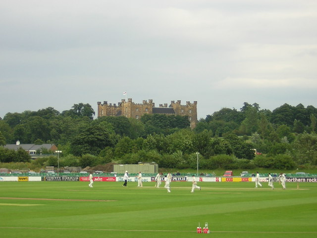 Durham County playing at Chester-le-Street. Lumley Castle in background